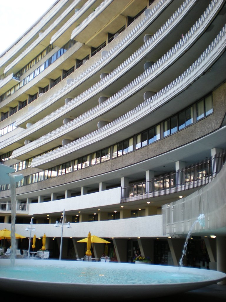 Watergate Hotel and Apartments.